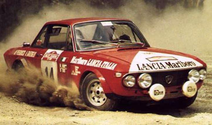 Italian rally driver Mauro Pregliasco and his co-driver Angelo Garzoglio on a Lancia Fulvia 1.6 Coupé HF (Group 4) sponsored Marlboro at the 1973 Rallye Sanremo.